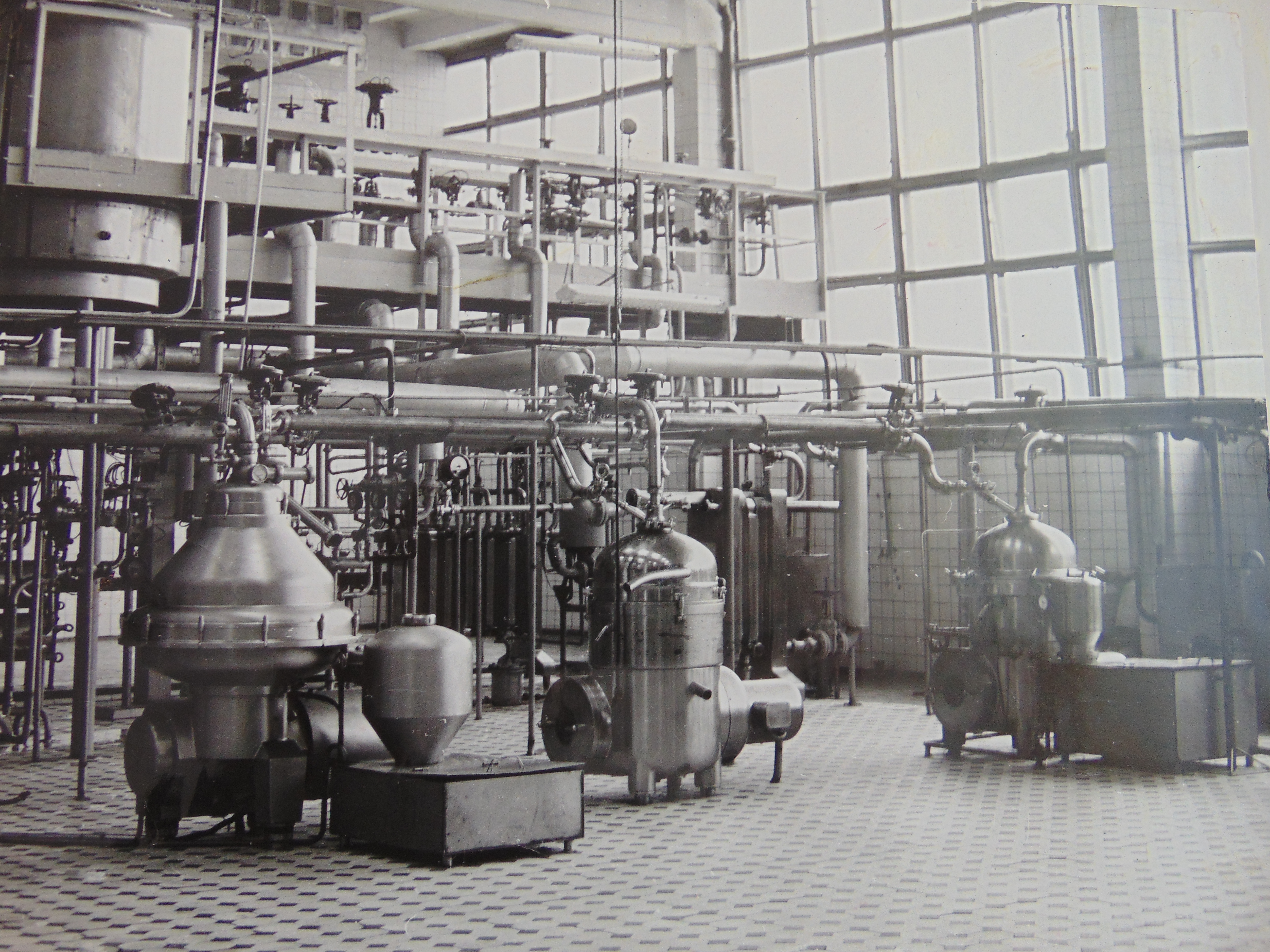 Апаратне відділення конвервного цеху.ПАТ ХМКК ДП. 80-ті роки